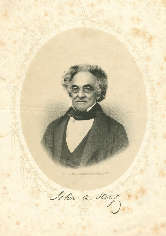 John Alsop King, 1788-1867.